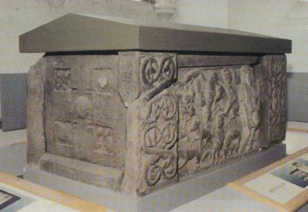 Photo of the St Andrew's Sarcophagus.